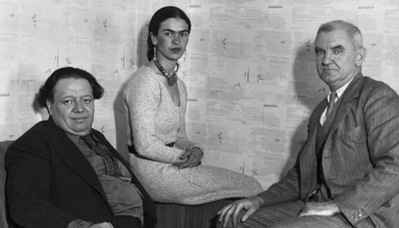 Diego Rivera, Frida Kahlo & Anson Goodyear